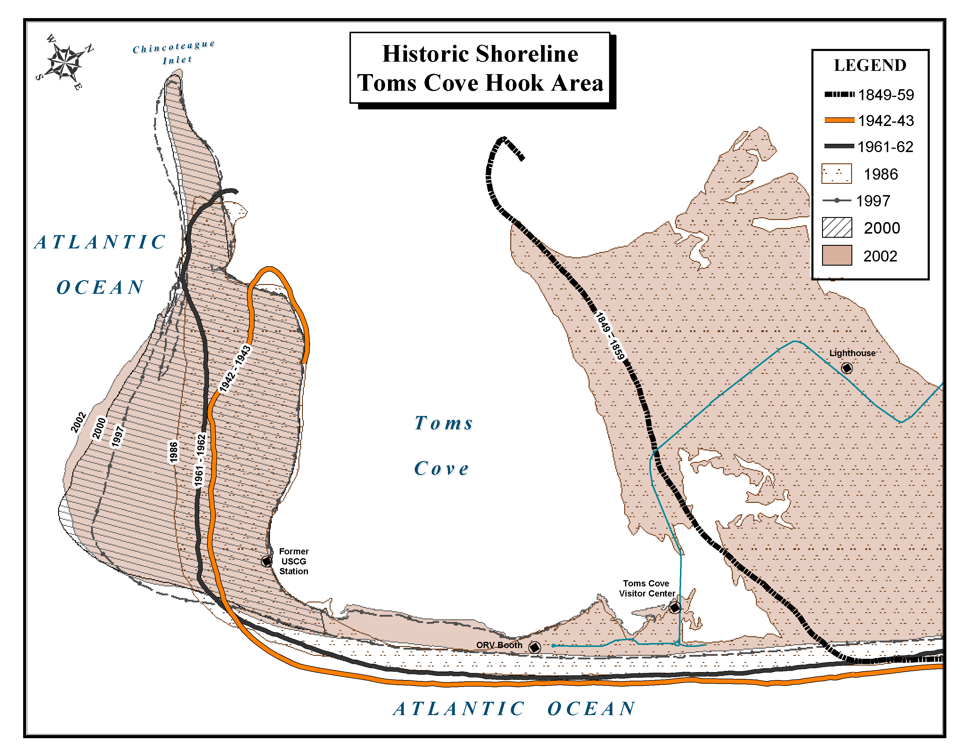 Map of Historic Shoreline Toms Cove Hook Area.